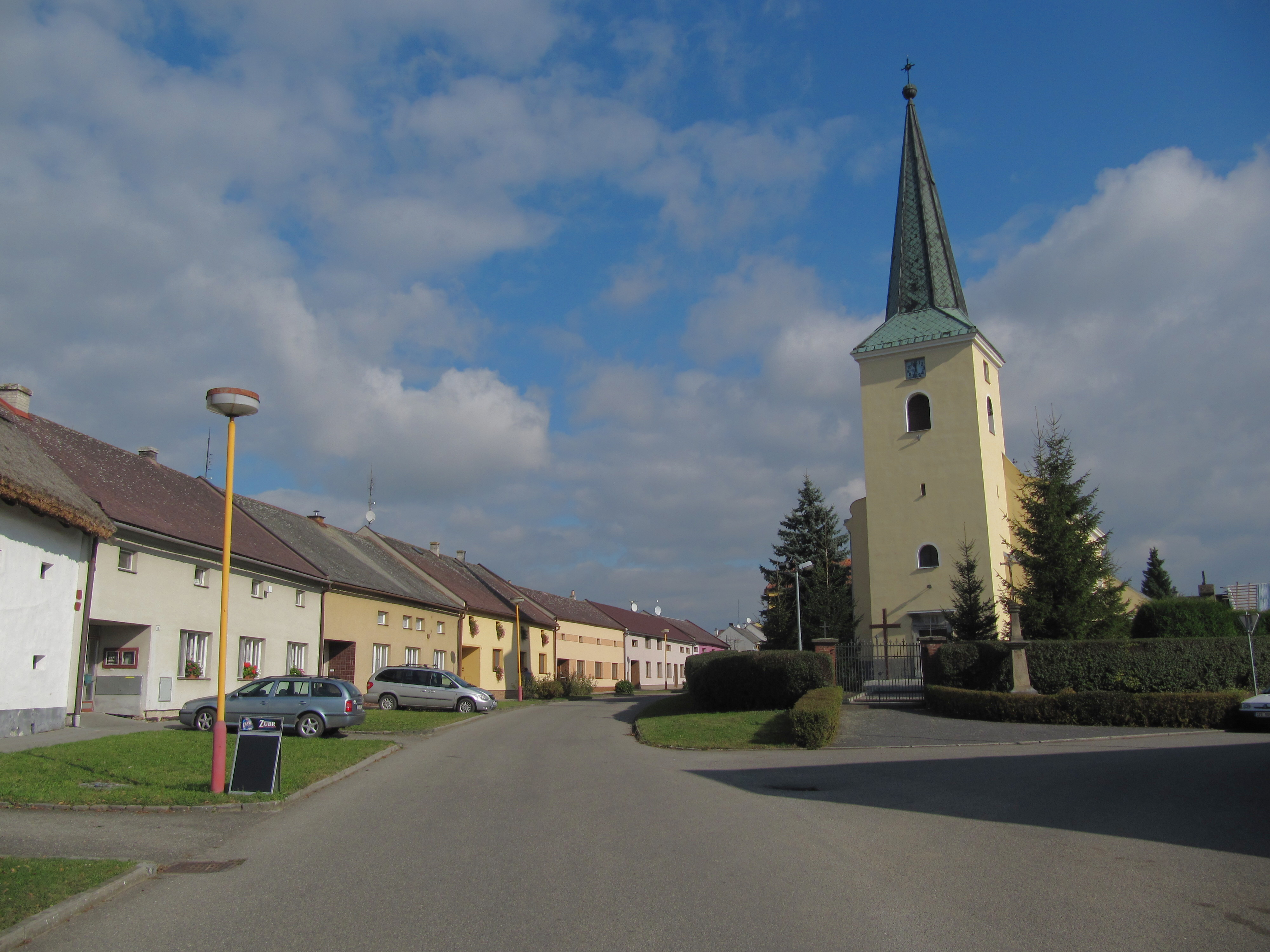 Rymice in Kroměříž District, Czech Republic. Common with the St. Bartholomew-church.